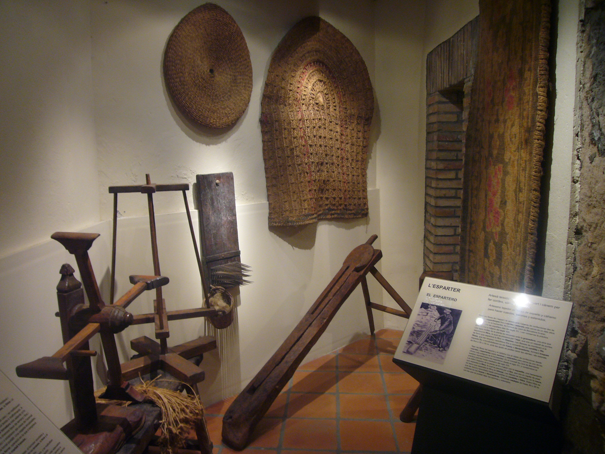 Muleteer's Museum ("Museu del Traginer") located in Igualada, Catalonia. Tools for manufacturing crafts with sparto grass (Stipa tenacissima).